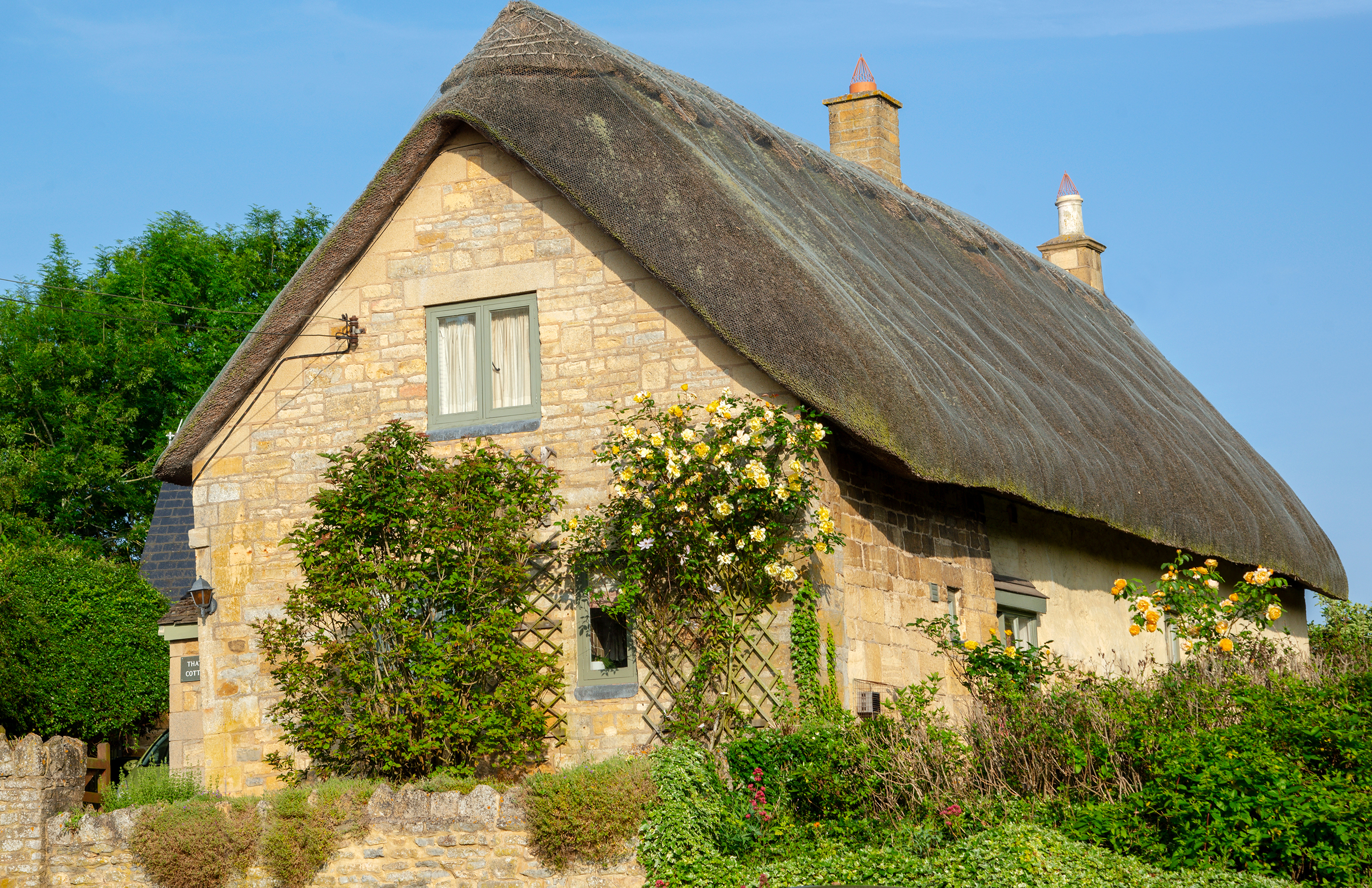 A Grade II listed thatched cottage built in the 17th century with some 20th century modifications